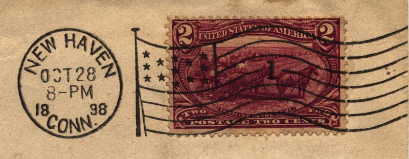 Scan of flag cancel on a US stamp of 1898